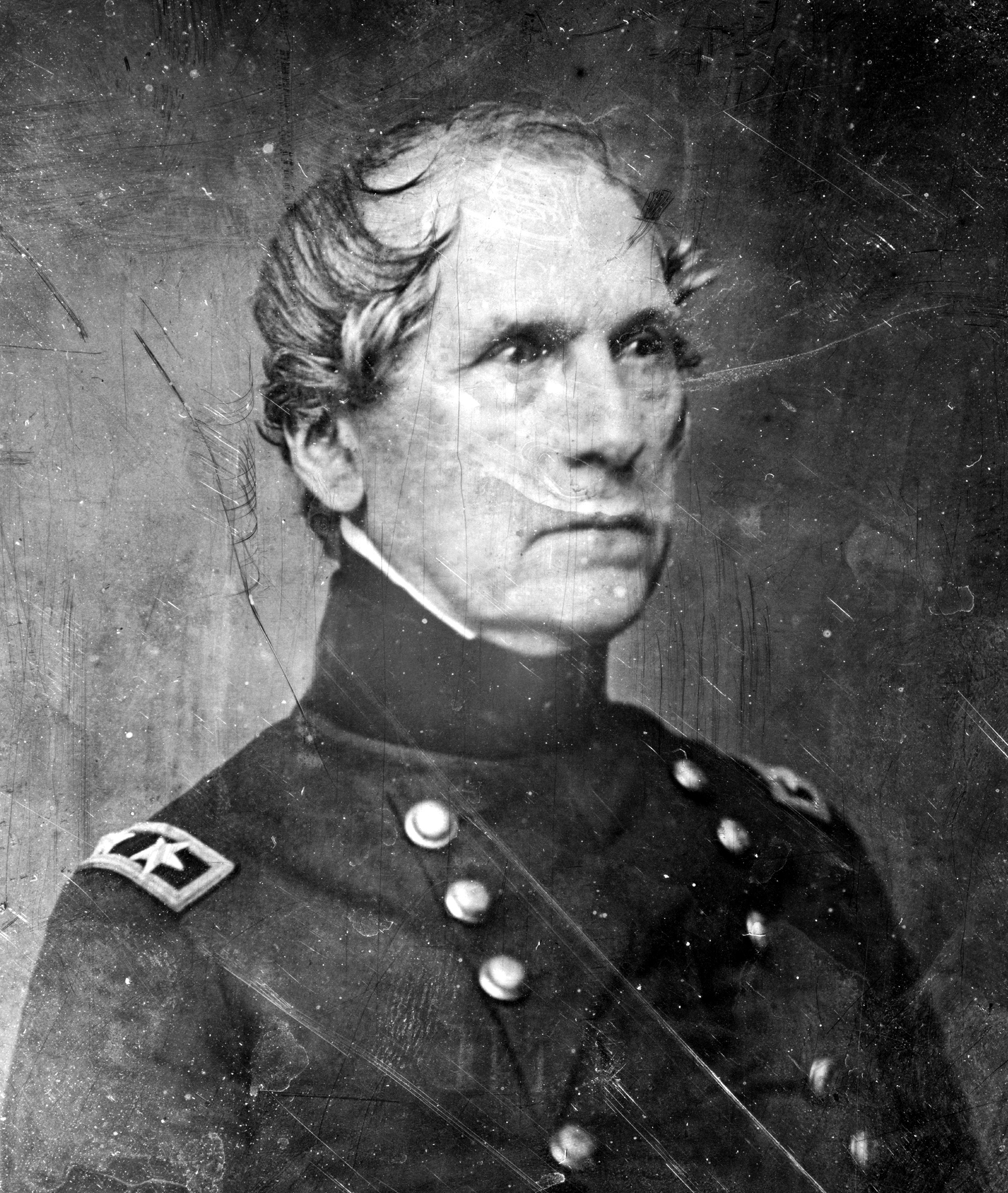 John Ellis Wool, half-length portrait, three-quarters to the right, in military uniform, hand in coat. SUMMARY: U.S. Army General. MEDIUM: 1 photograph : half plate daguerreotype, gold toned.